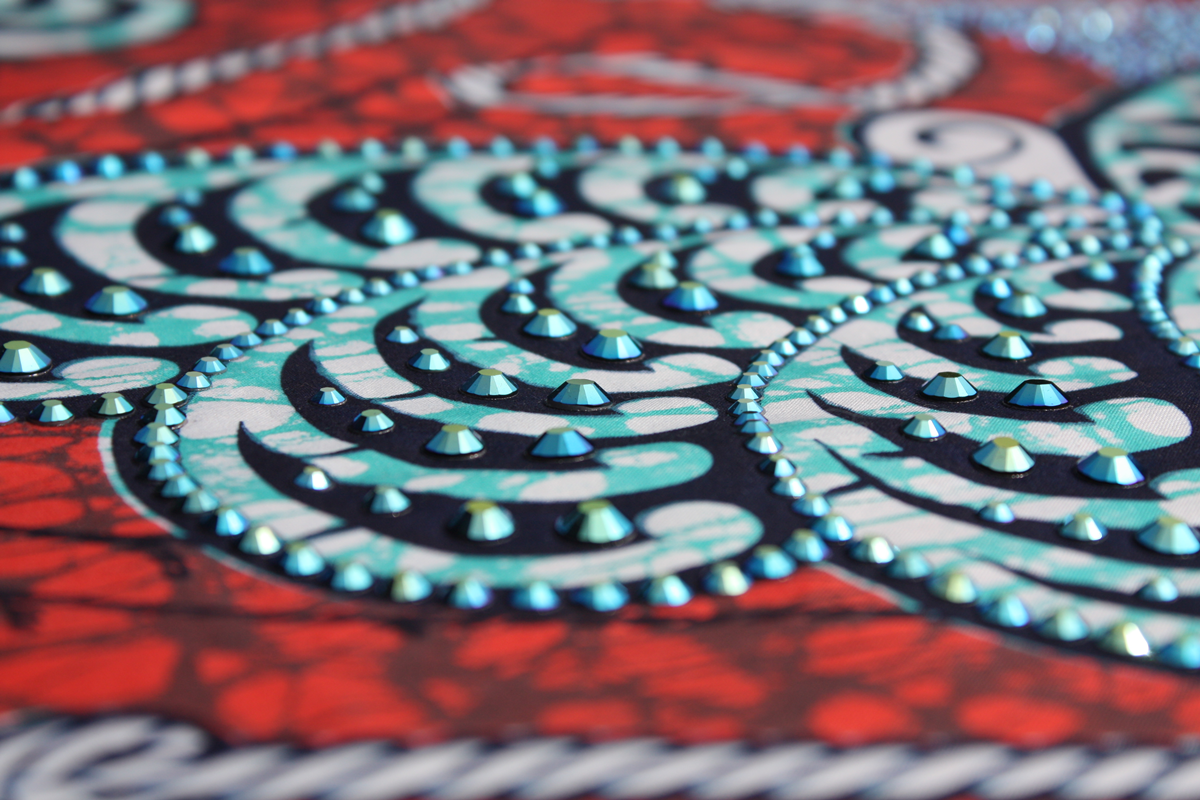 Crystallizing African Textiles: Strategic Innovation African Waxprints Textile: Vlisco Crystals: Swarovski Initiator: Alexander Sarlay, Silke Hagen-Jurkowitsch